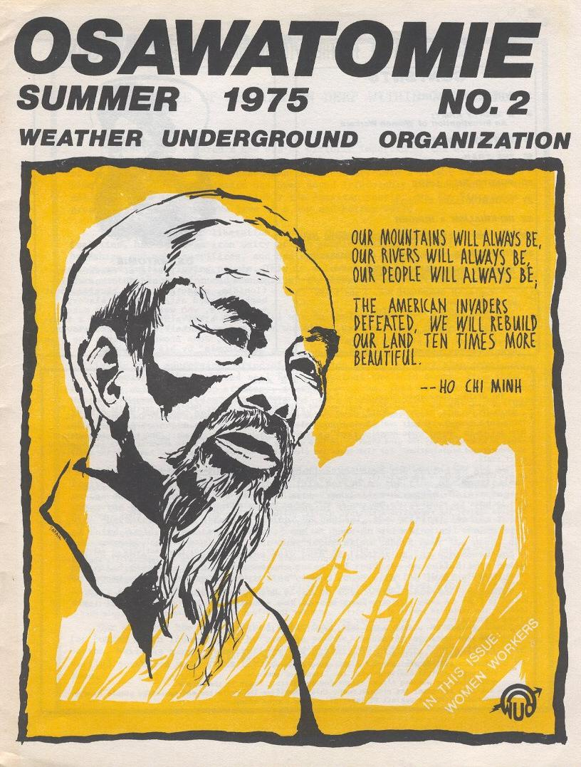 Front page of Osawatomie (issue n°2), the clandestine newspaper of the Weather Underground.